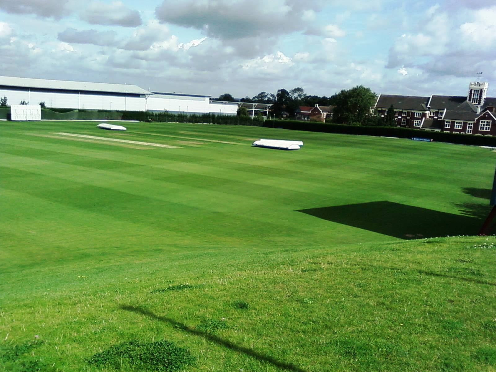 UCCE Cricket Ground, Loughborough University